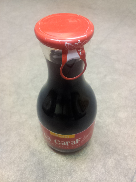 RipCap closure on wine bottle.